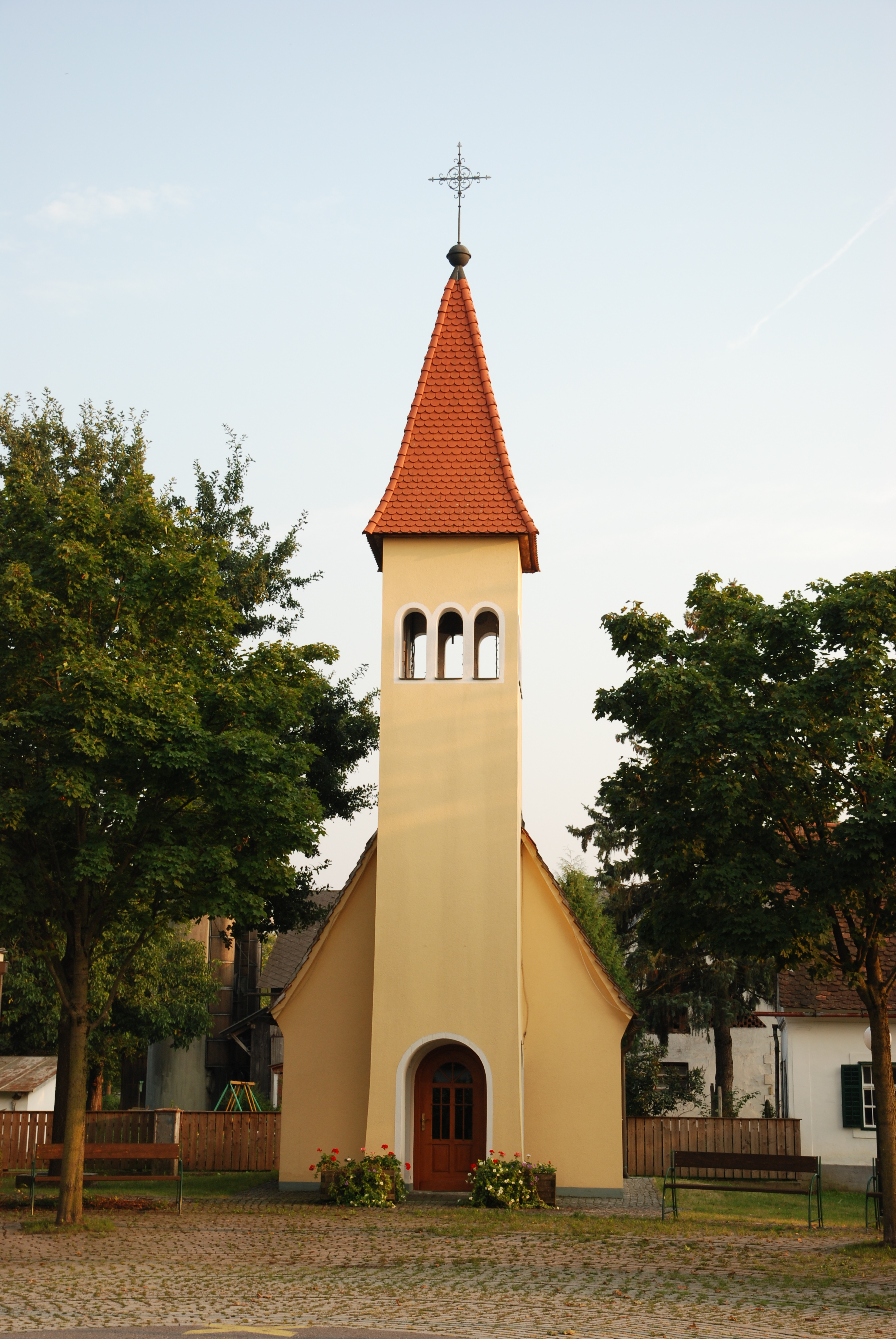 Kapelle Eichfeld